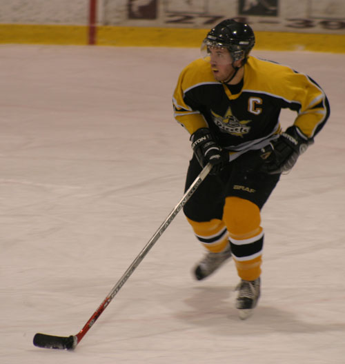 Schreiber Diesels' captain Reilly Miller works the blueline in a game against the Fort Frances Jr. Sabres on 7 Dec. 2007.